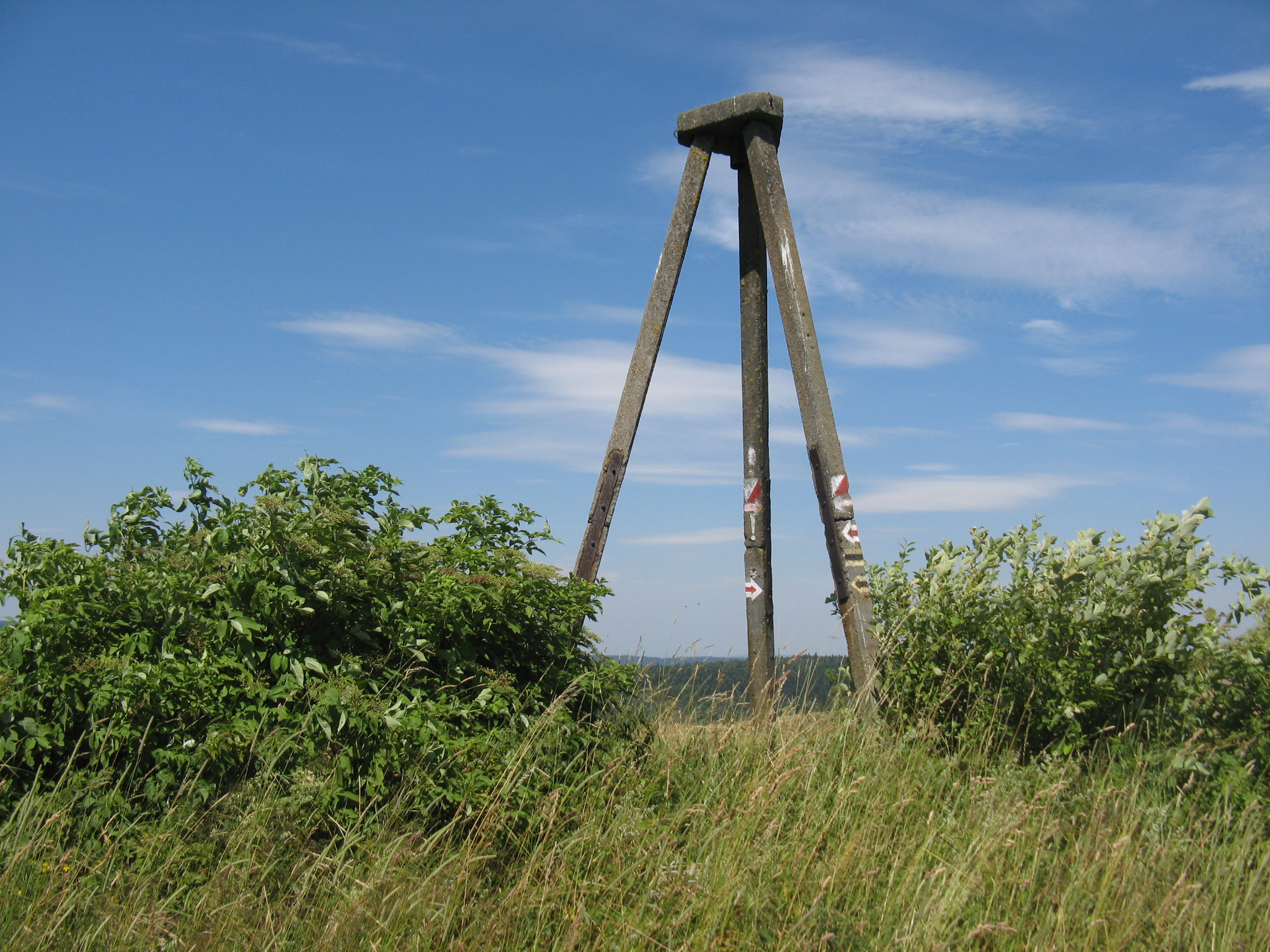 tripod on Wahalowski Wierch (666 m above sea level) peak, which is hill in eastern (southern Poland)